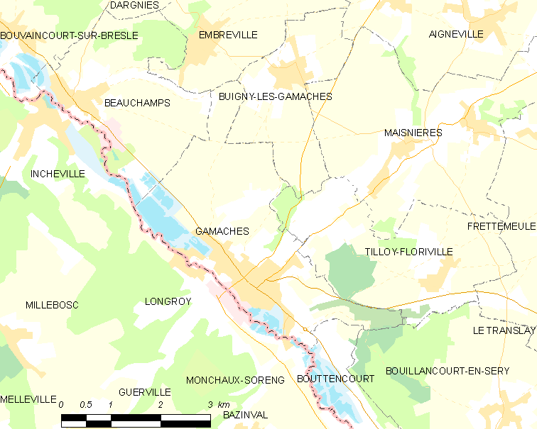 Map of French municipality Gamaches